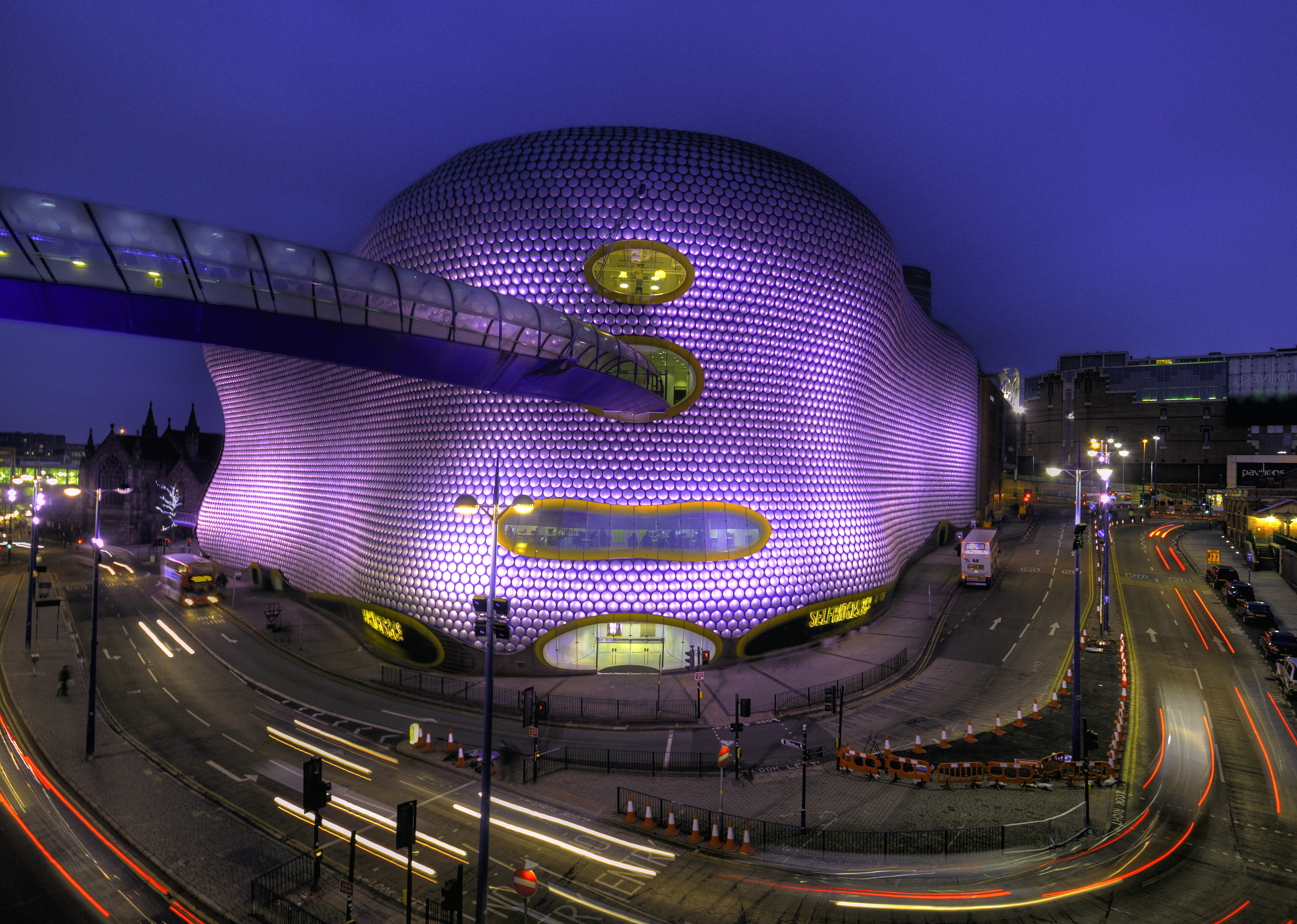 Selfridges Building, Birmingham, 2012